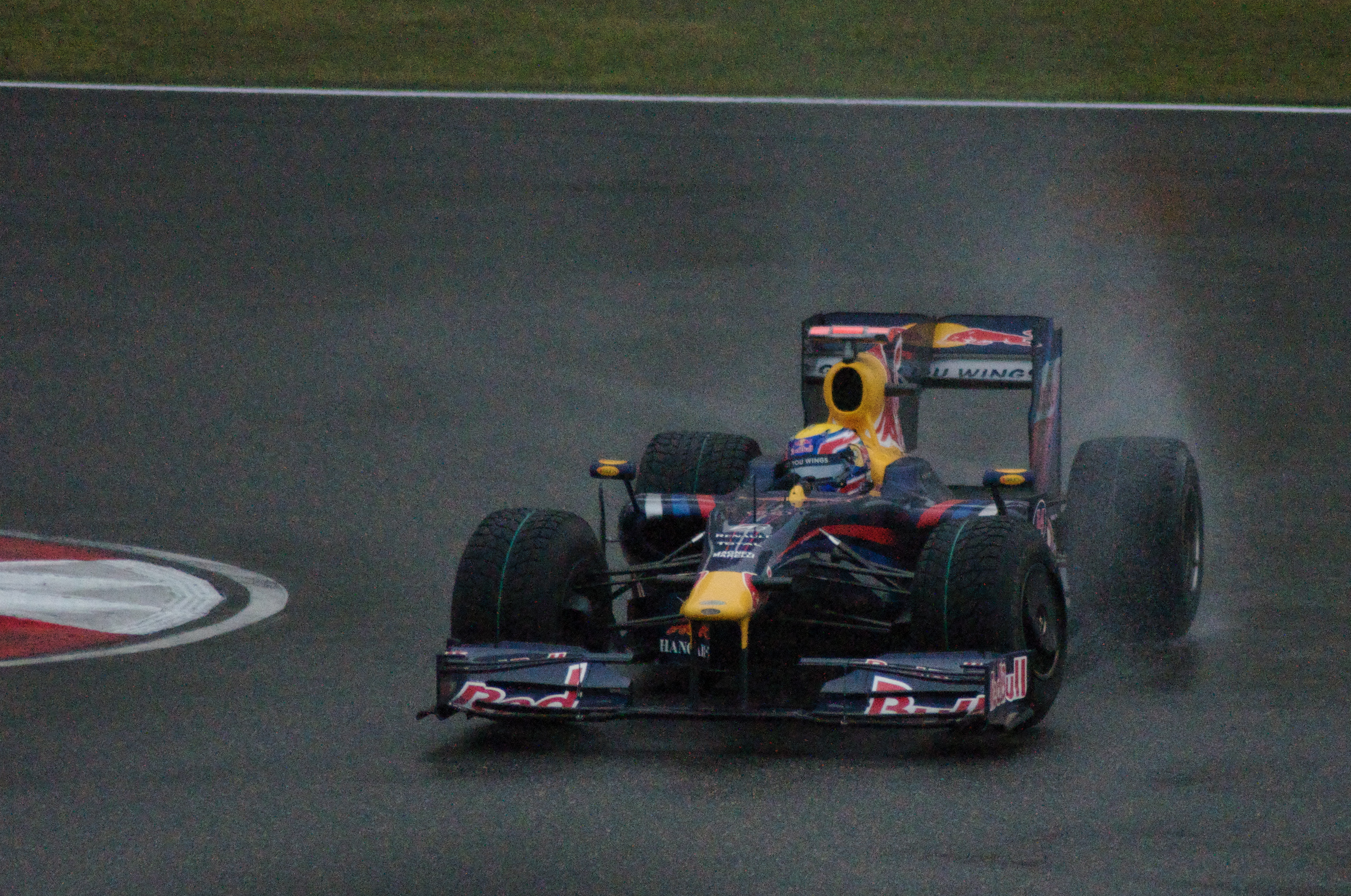 Mark Webber driving for Red Bull Racing at the 2009 Chinese Grand Prix.